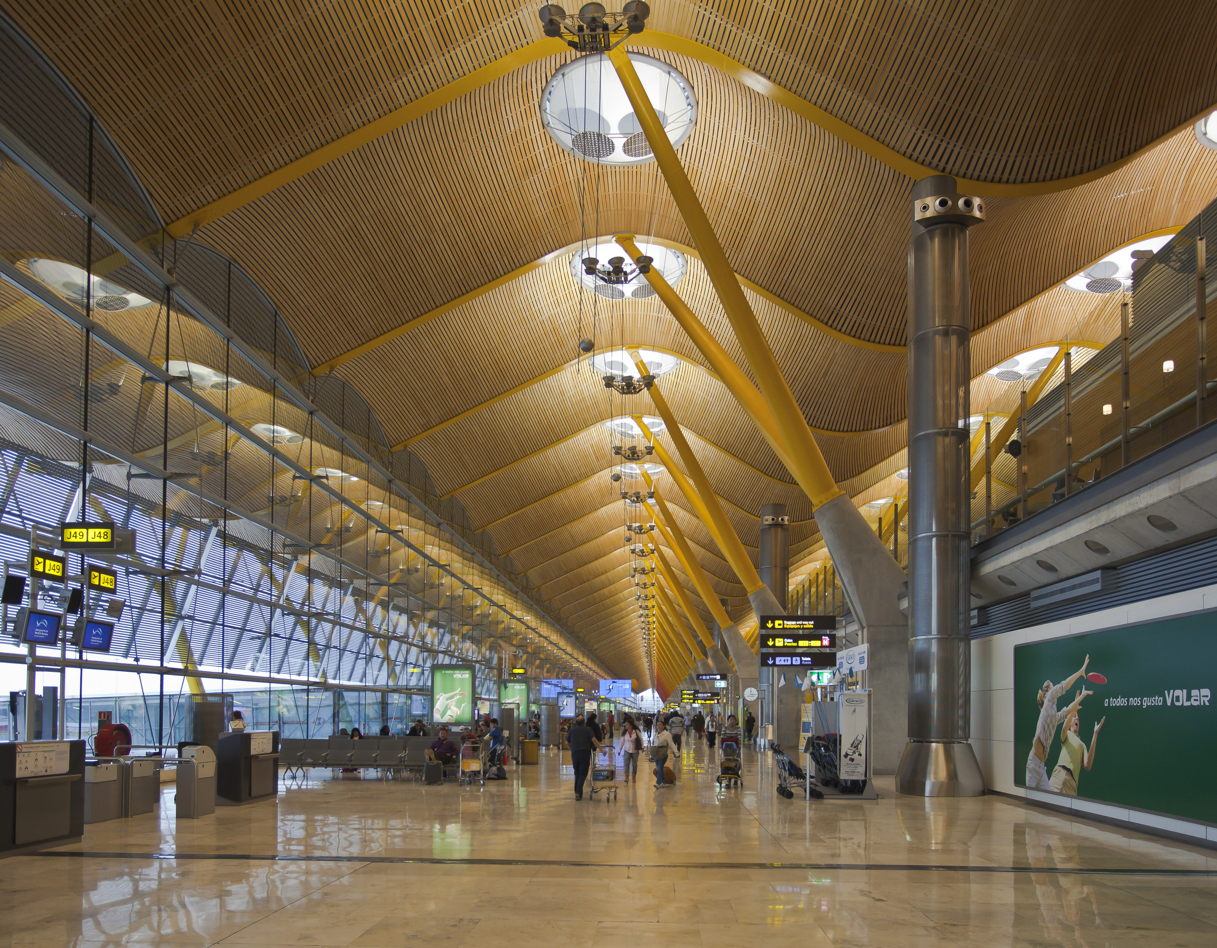 Terminal 4 of the airport Madrid-Barajas, Spain